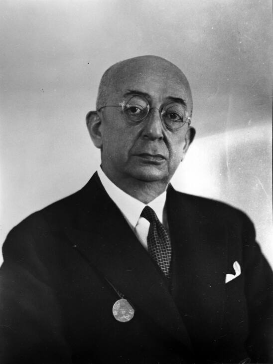 Former Prime Minister of the Republic of Turkey Refik Saydam